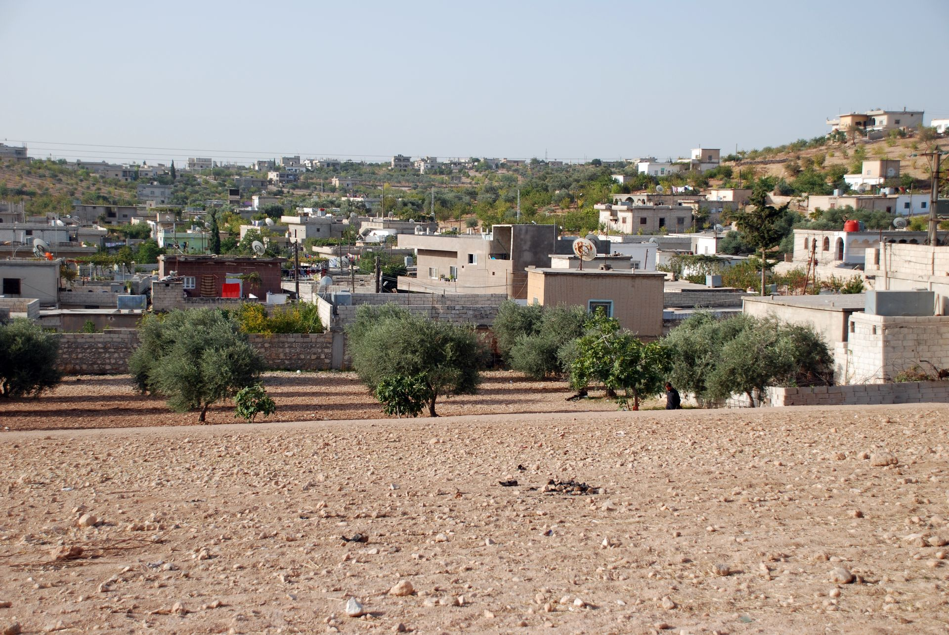 Juzif, village southeast of Jisr ash-Shugur, Syria